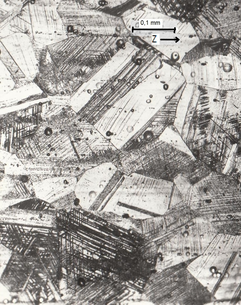 Surface of a specimen of CrNiTi-steel after pulsating strain etched after removing grind grooves by electrolytic polishing..